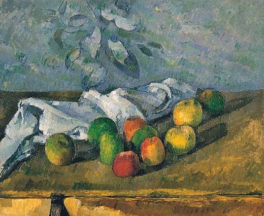 Oil on canvas, 49.2 x 60.3 cm